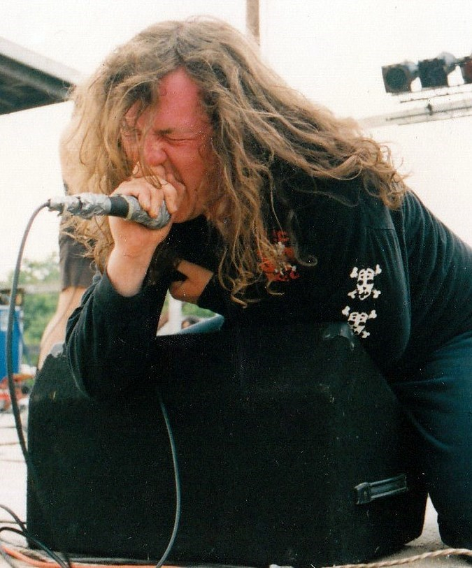 This photo is of Seth performing at the Relapse Festival in 1993 in Maryland. I (his wife) use it for our label website, slightly modified to include the label name.